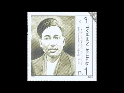 mitrasen thapa's poststamp